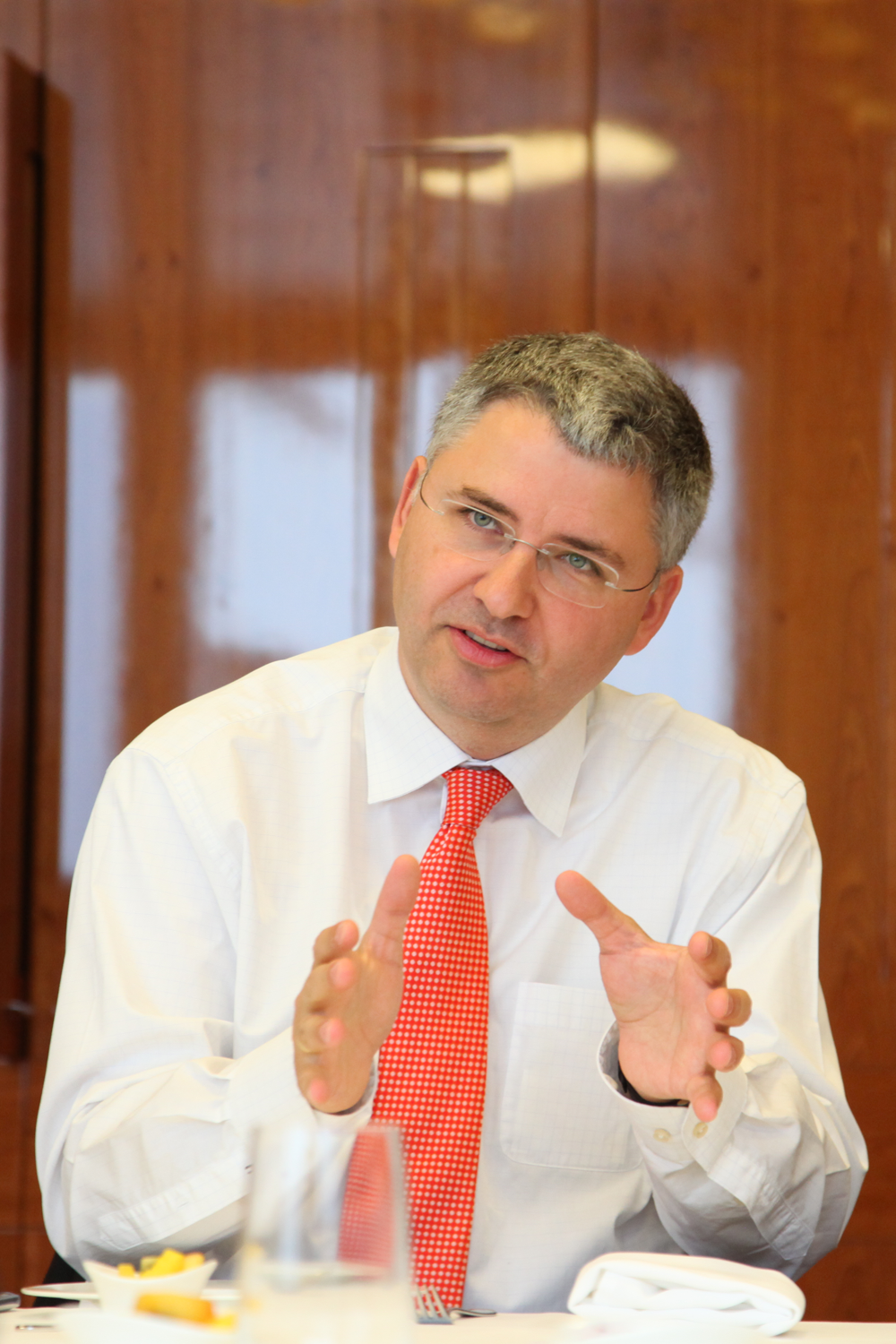 Severin Schwan in May 2012 at the 42. St. Gallen Symposium at the University of St. Gallen.